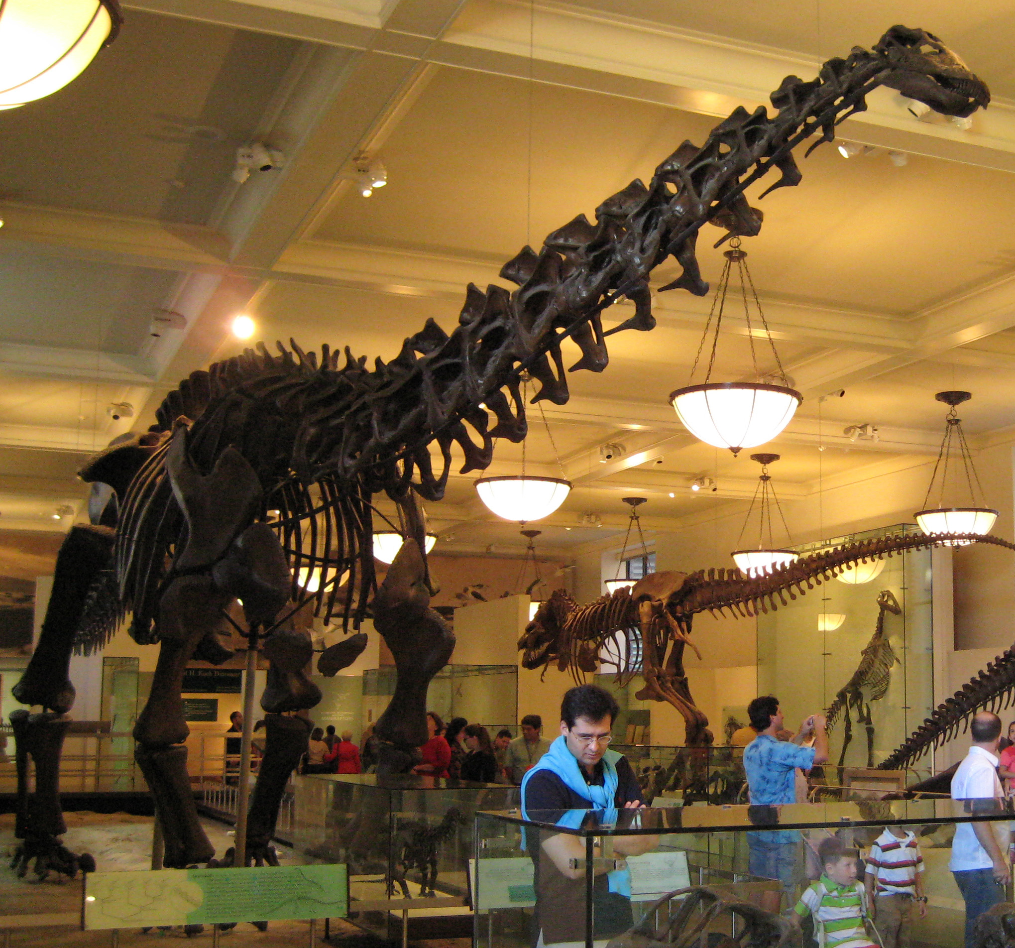 Apatosaurus skeleton, Natural History Museum.